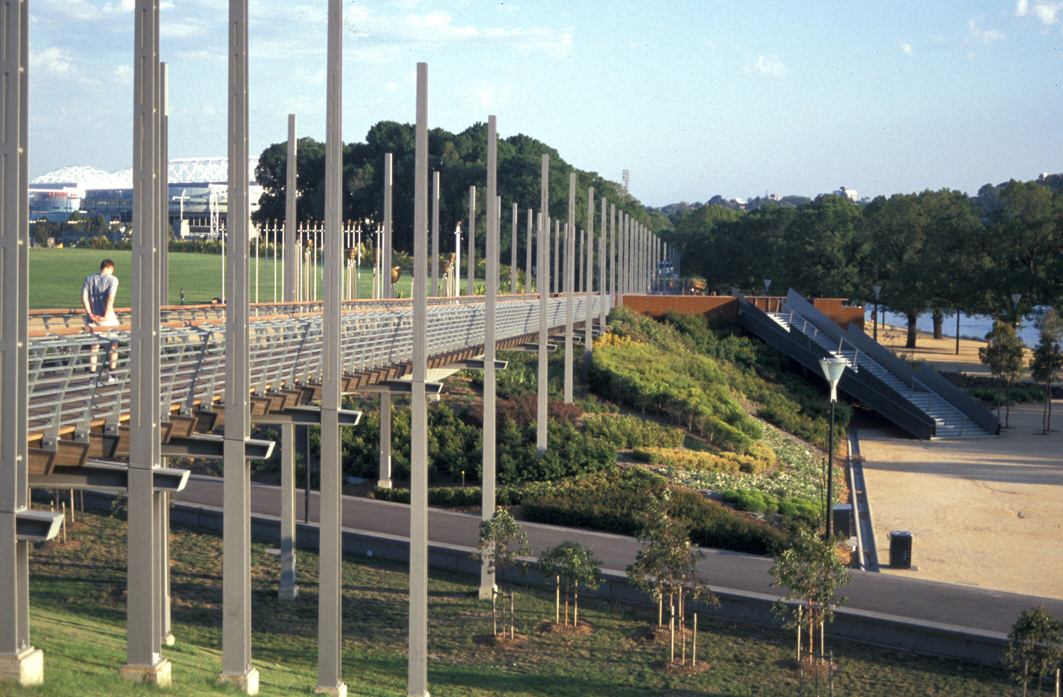 Photo of bridge in Birrarung Marr, Melbourne taken by R Jones. Image scanned from 35mm slide.